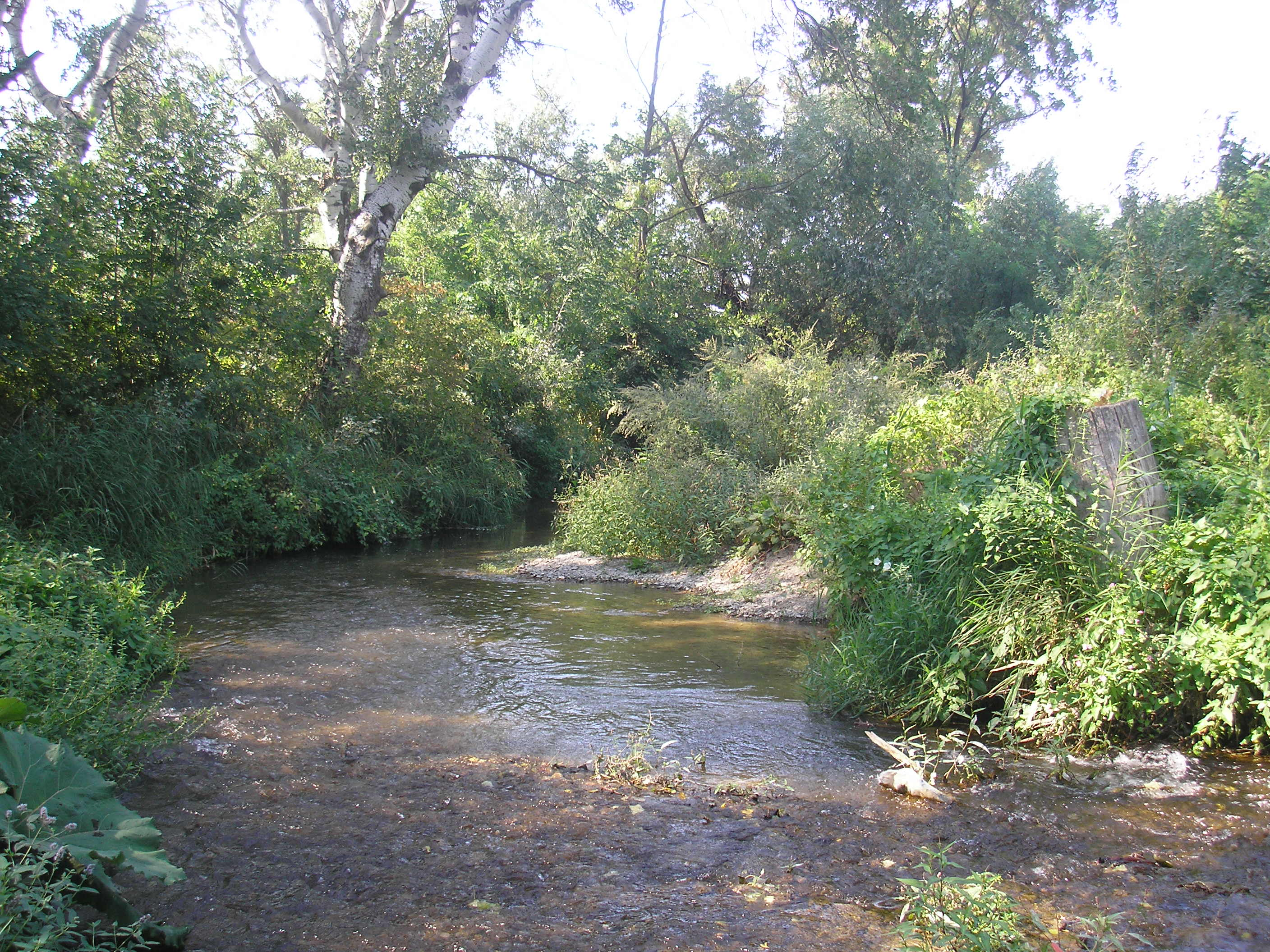 Alma River, the middle